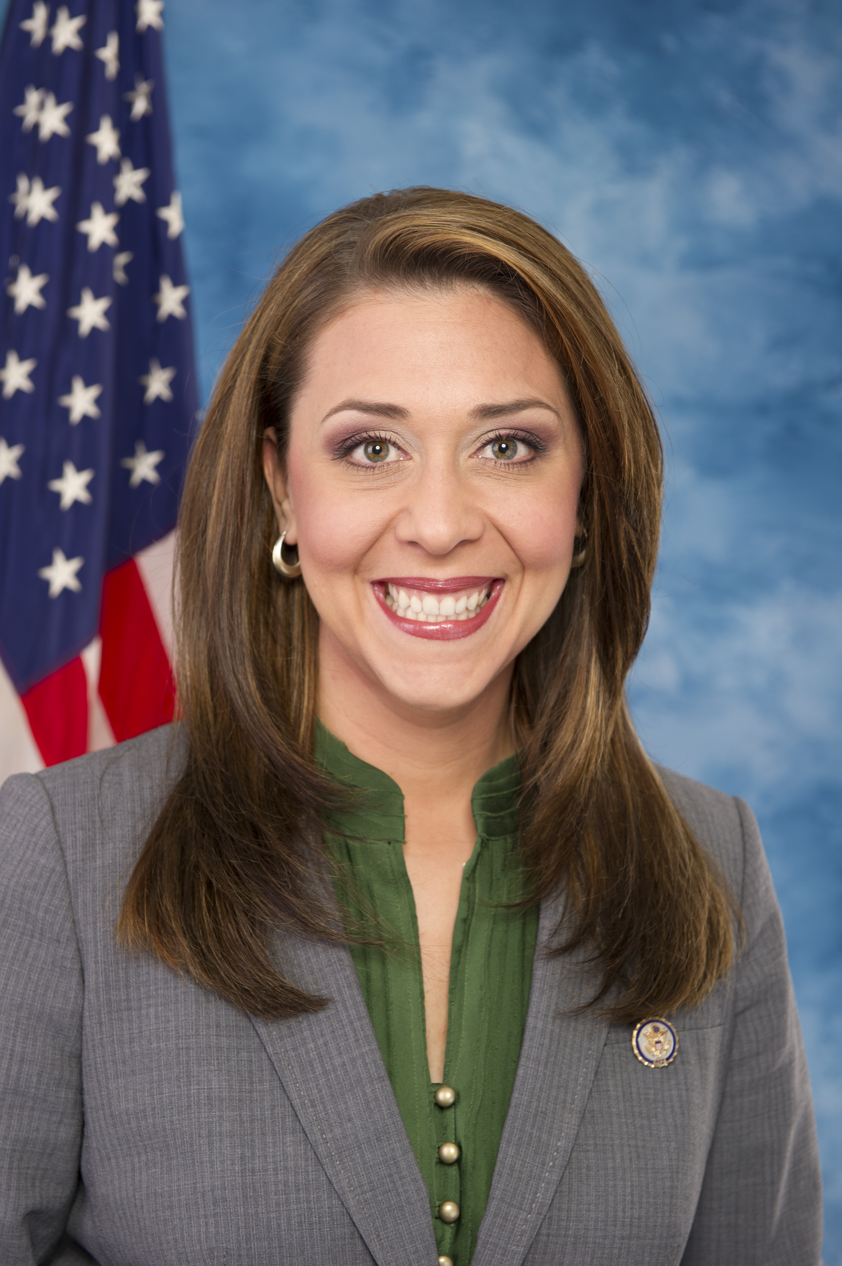 Official portrait of US Rep Jaime Herrera Beutler